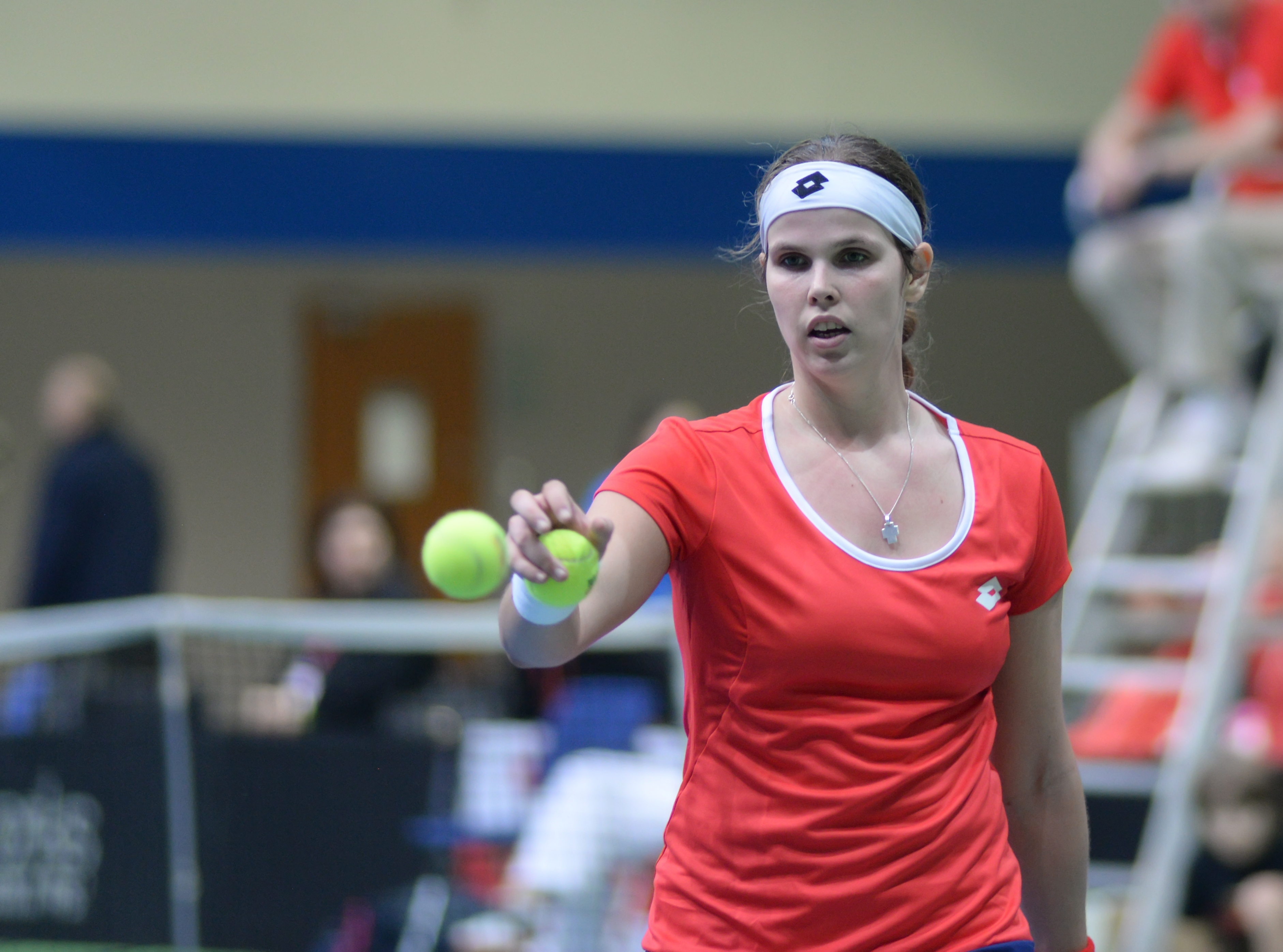 Maria João Koehler at the 2015 Fed Cup